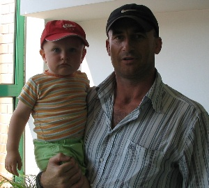 Marek Pawlak with son Kuba